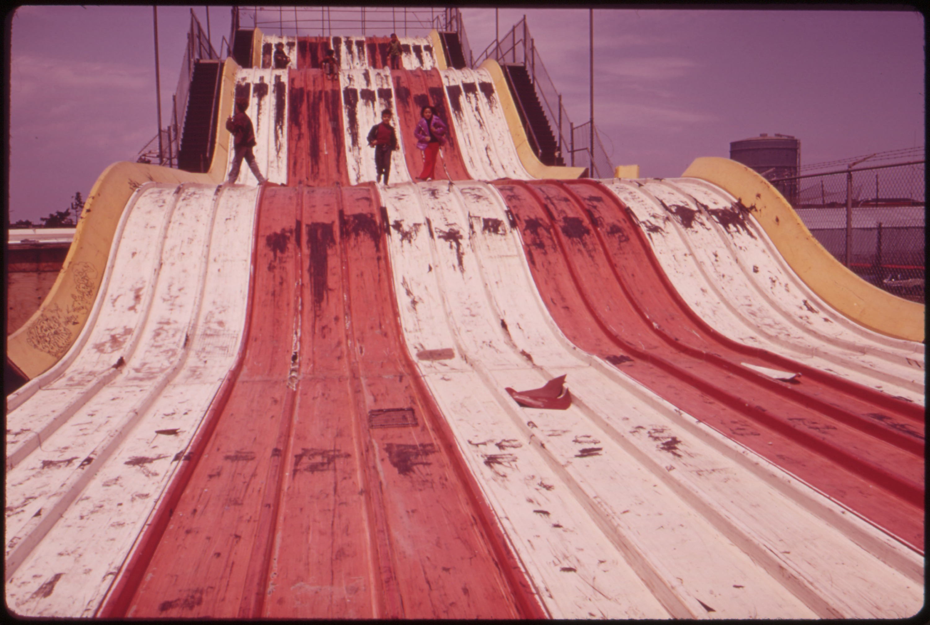 General notes: A 1973 photo of an abandoned 'Giant Slide' that had been set up for a few years on the old Steeplechase Park site on Coney Island in New York. This ride was installed by the Garto Brothers on the old Steaplechase Park location after that park closed in 1964.[1]